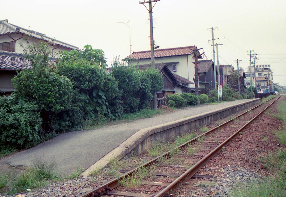 JNR Bantan Line Kameyama Station